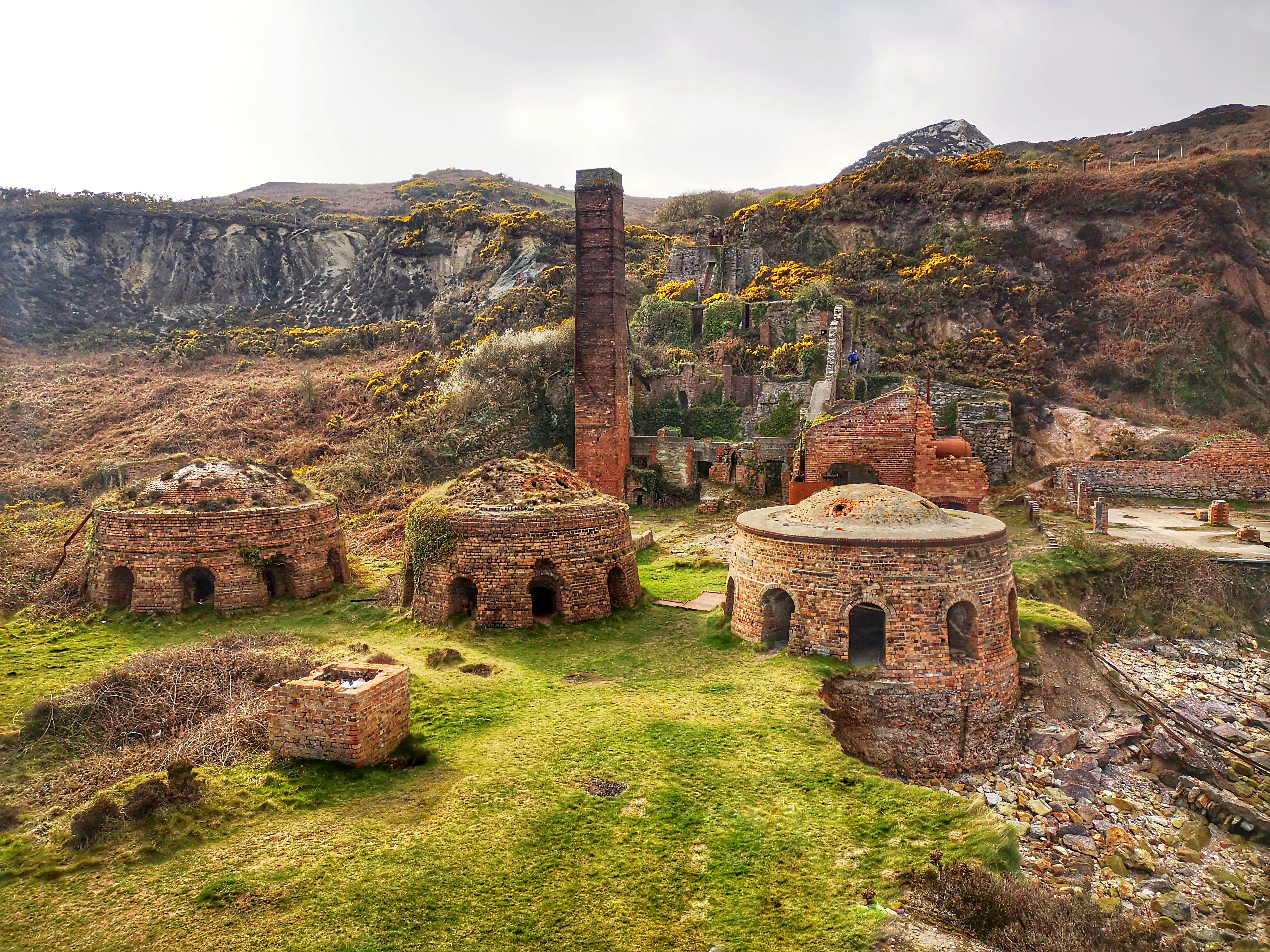 Near Amlwch on Isle of Anglesey. Which closed in 1949.